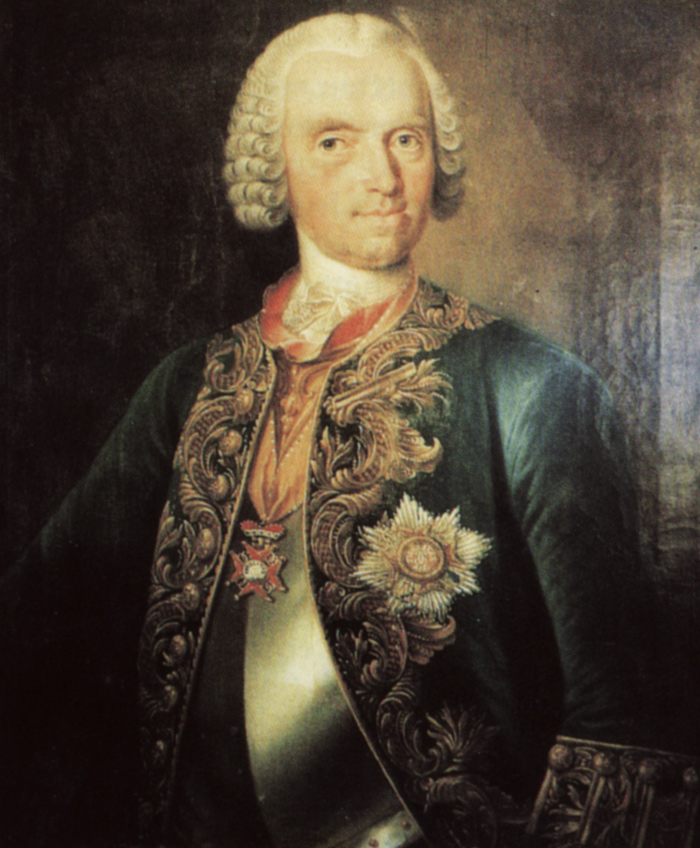 Portrait of Franz Reinhard von Gemmingen zu Gemmingen (1692–1751)